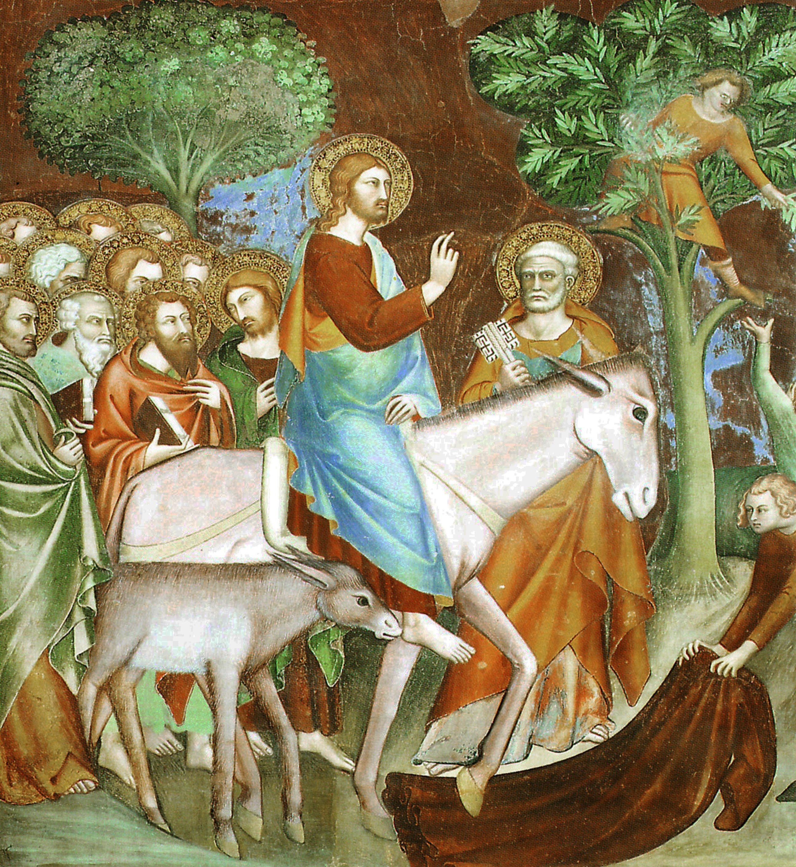 Christ's entry to Jerusalem